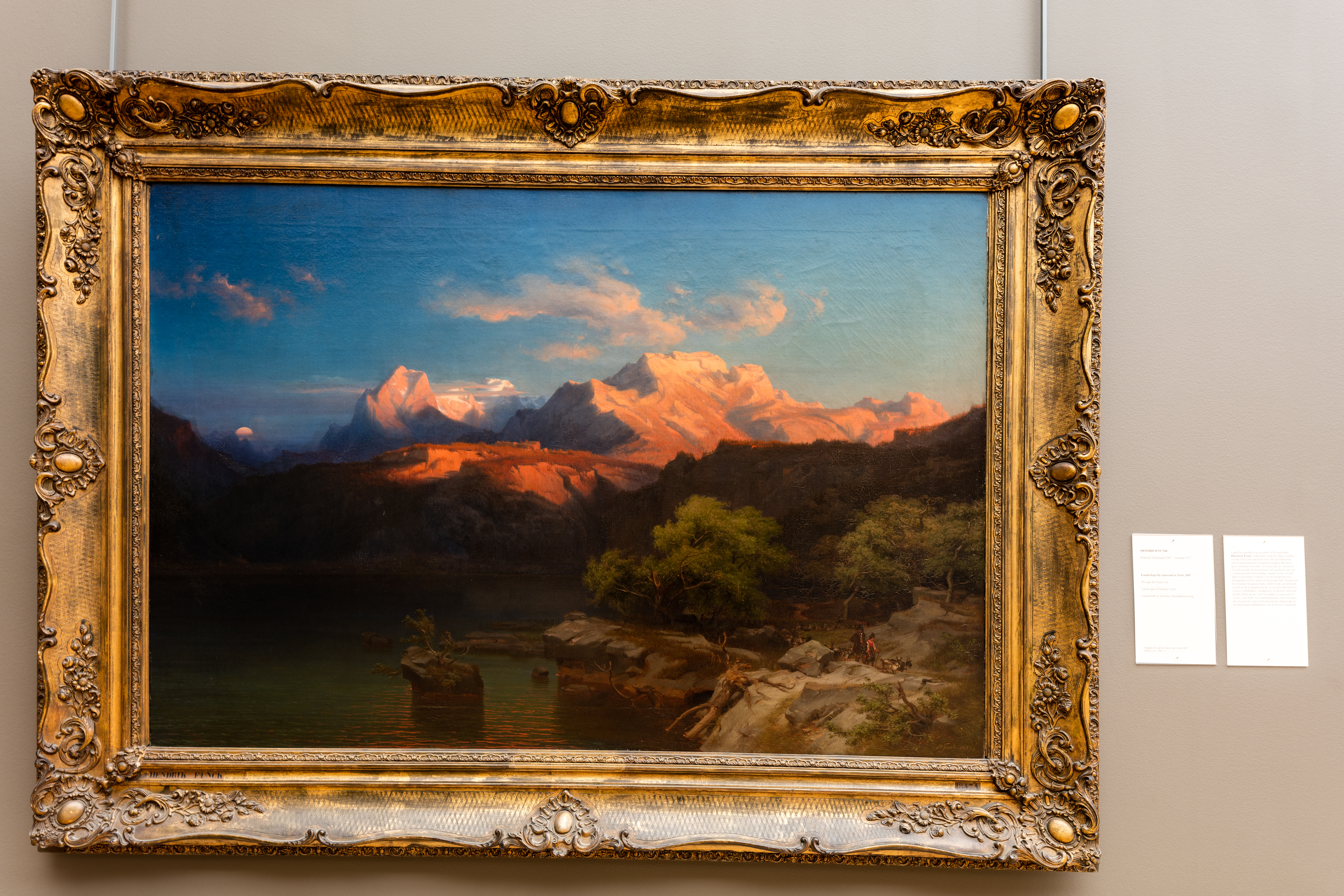 This is a file created at the museum: Museum of Fine Arts in Ghent